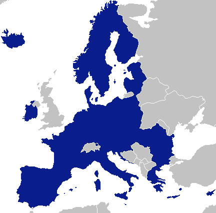 European Economic Area as single entity